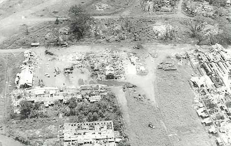 This photograph shows an aerial view of a helicopter crash site in Dong Xoai.